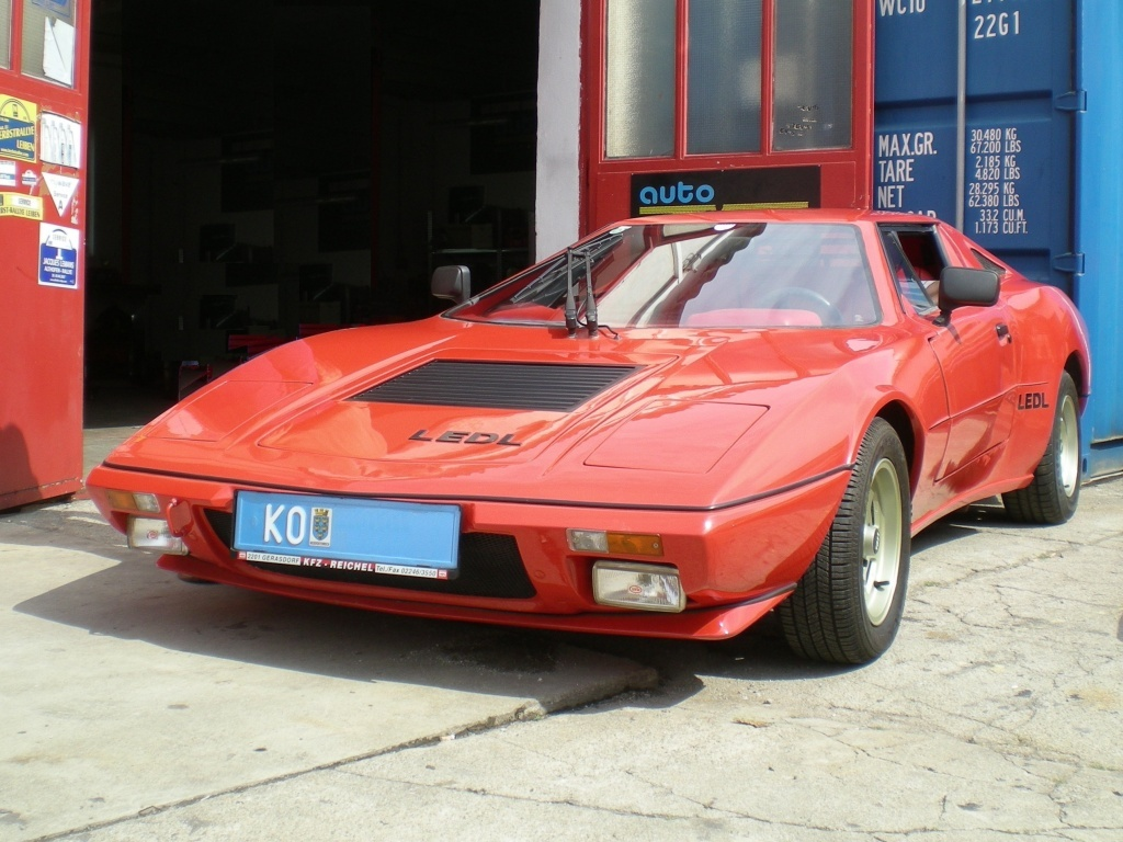 Ledl AS 160 sportscar, taken at the 35th anniversary celebration of the Ledl Company in Tattendorf, Austria